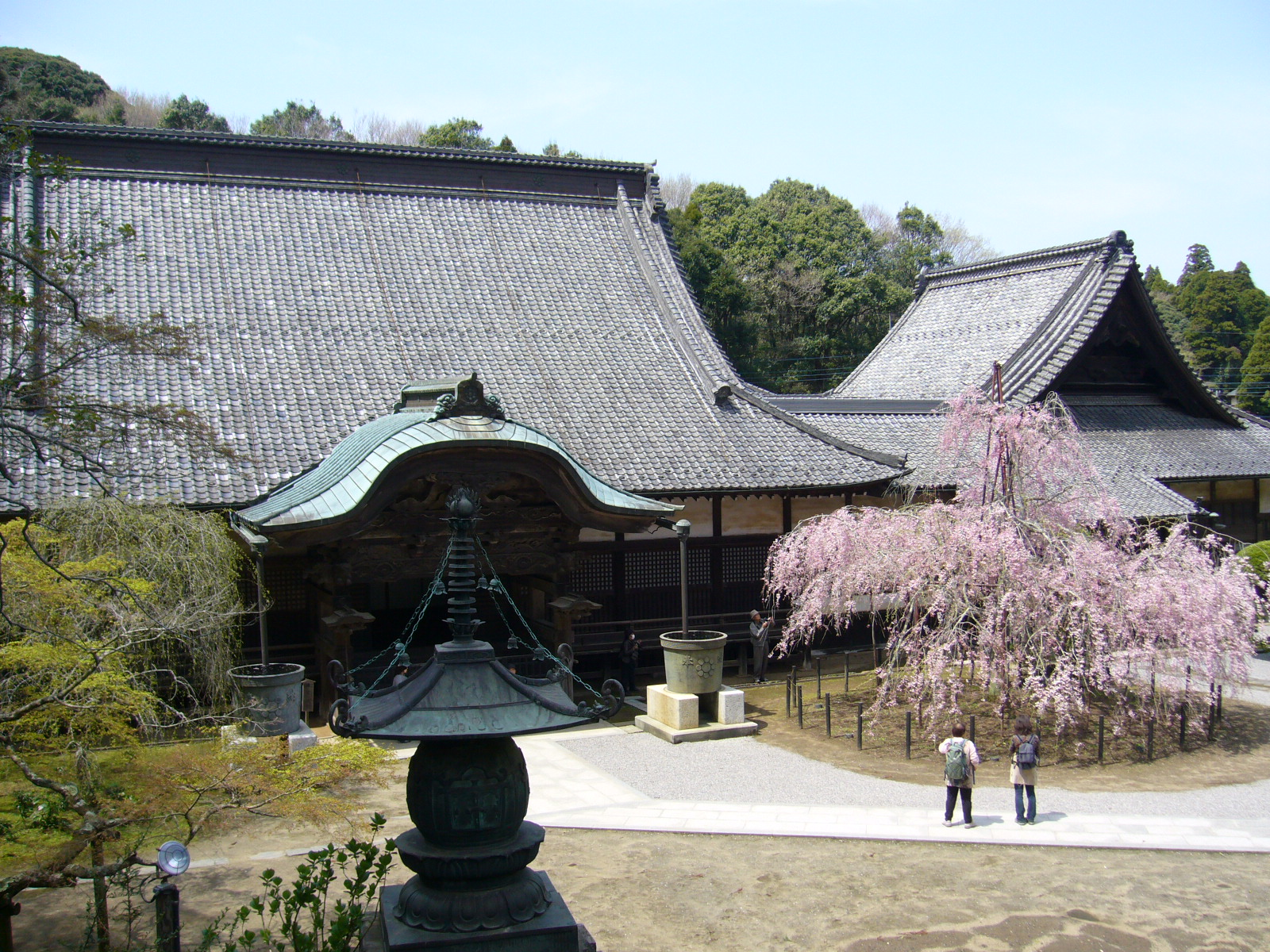 Kanpuku-ji temple in Makino, Katori City, Chiba Prefecture, Japan